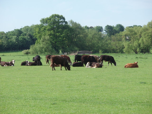 Yes this is Milton Keynes Neither cows (they're bullocks), nor concrete, but this is still Milton Keynes. A scene from the Ouse Valley Park in Wolverton.